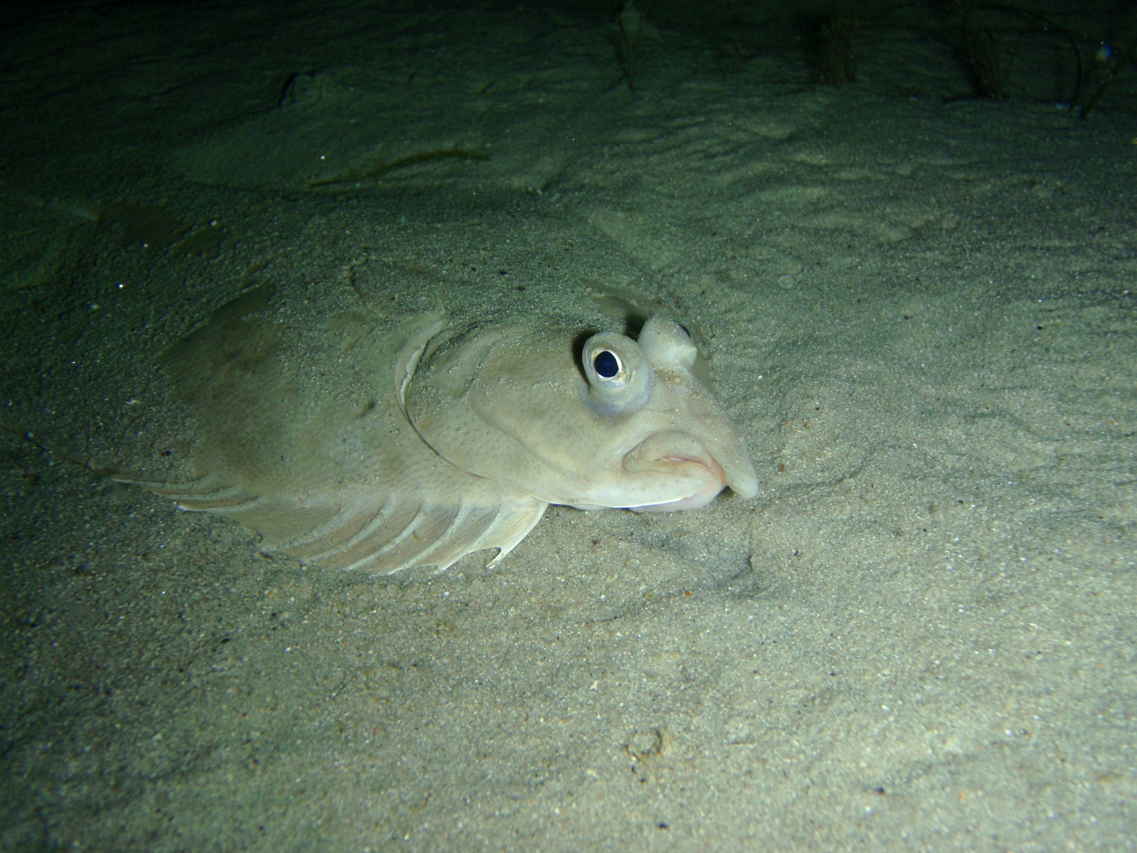 Greenback flounder Rhombosolea tapirina at Bicheno, Tasmania